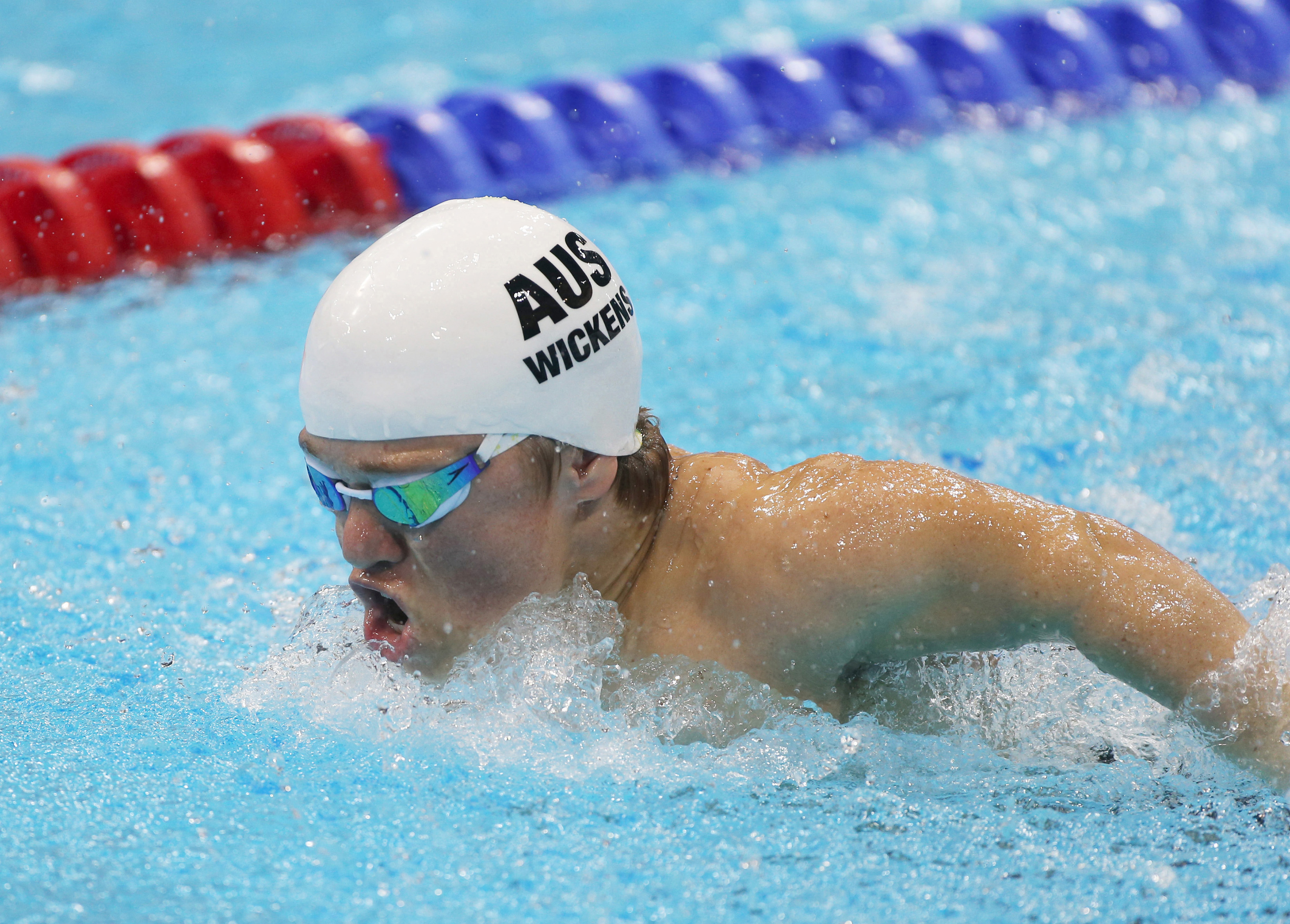 Photograph of Australian Paralympic team member Reagan Wickens at the 2012 Summer Paralympic Games in London